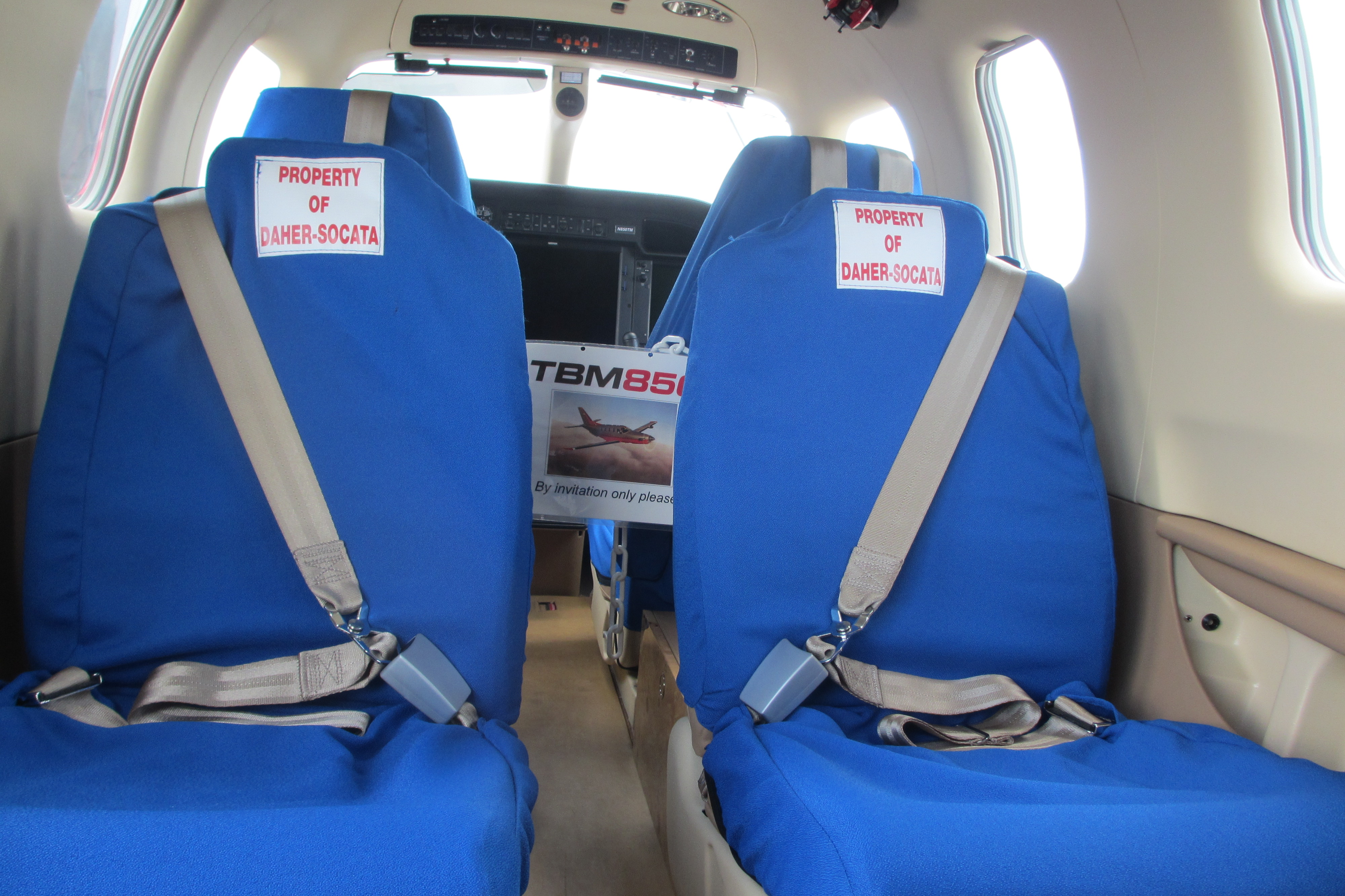 Daher-Socata TBM-850 cabin interior